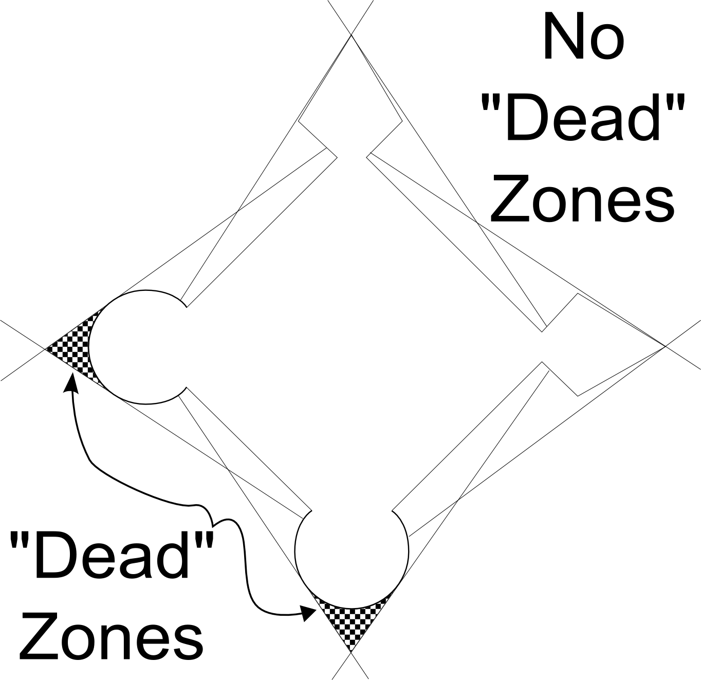 Line-of-fire shown for star forts and non-star forts, indicating the "dead" zones created by the latter. Inspired by figure of Lynn, John A. "The trace italienne and the Growth of Armies: The French Case." In "The Military Revolution Debate" ISBN 0-8133-2054-2